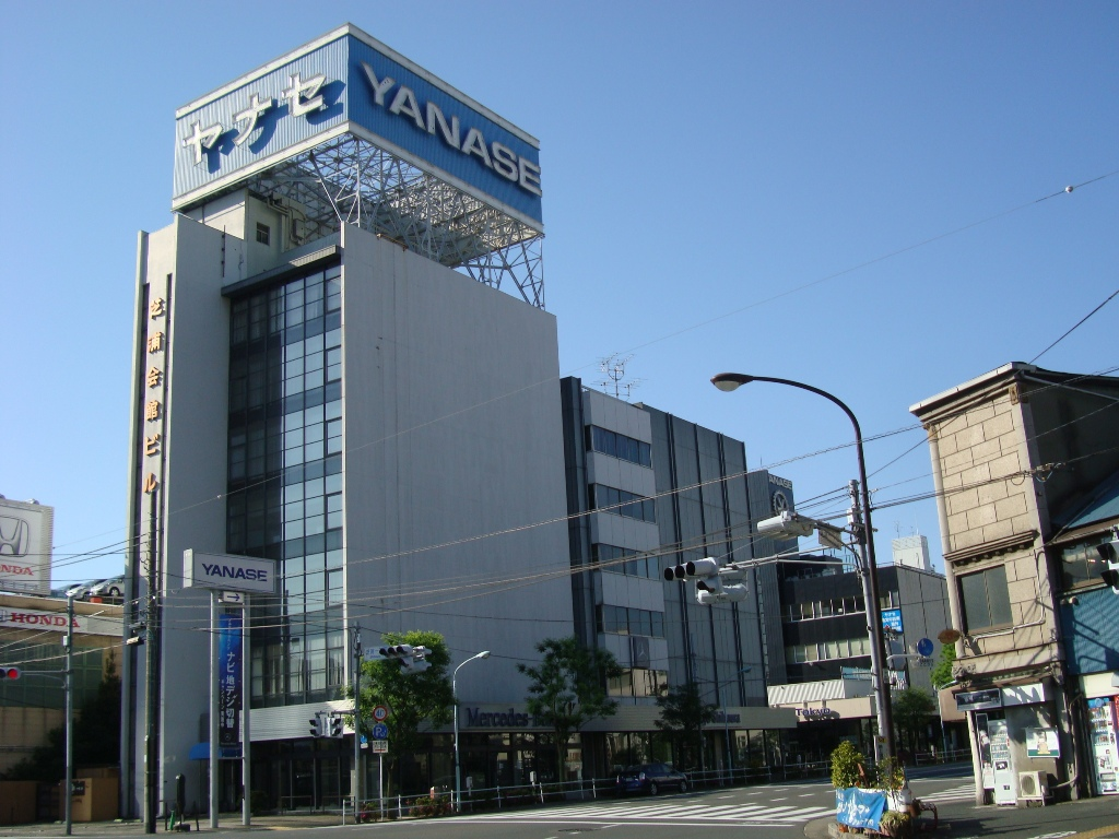 Headquarters building of Yanase, one of Japan's biggest car sales companies (Shibaura, Tokyo)